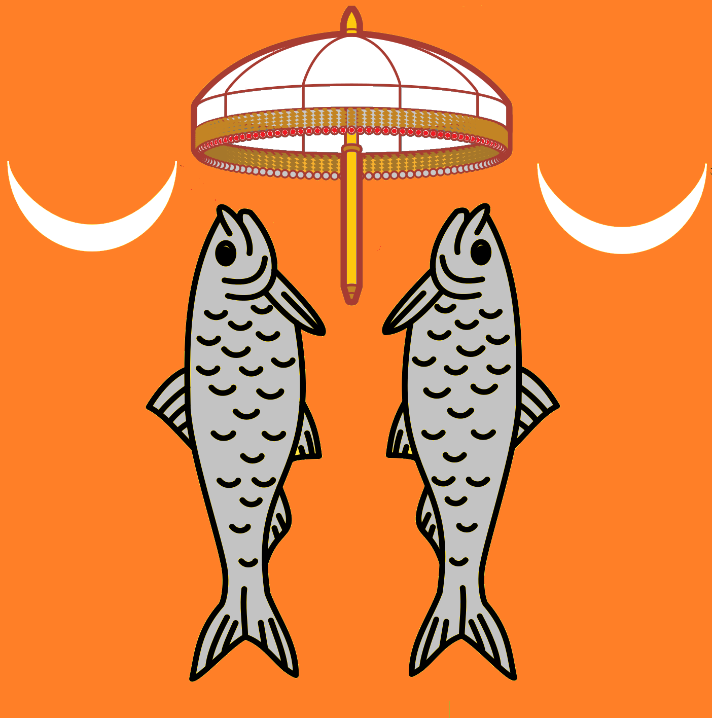 Royal emblem of the Alupas depicting upright double fishes and twin moons under a royal umbrella created by me based on the coins depicted in the book "The Alupas, Coinage and history", 2006, ISBN 81-7525-560-9